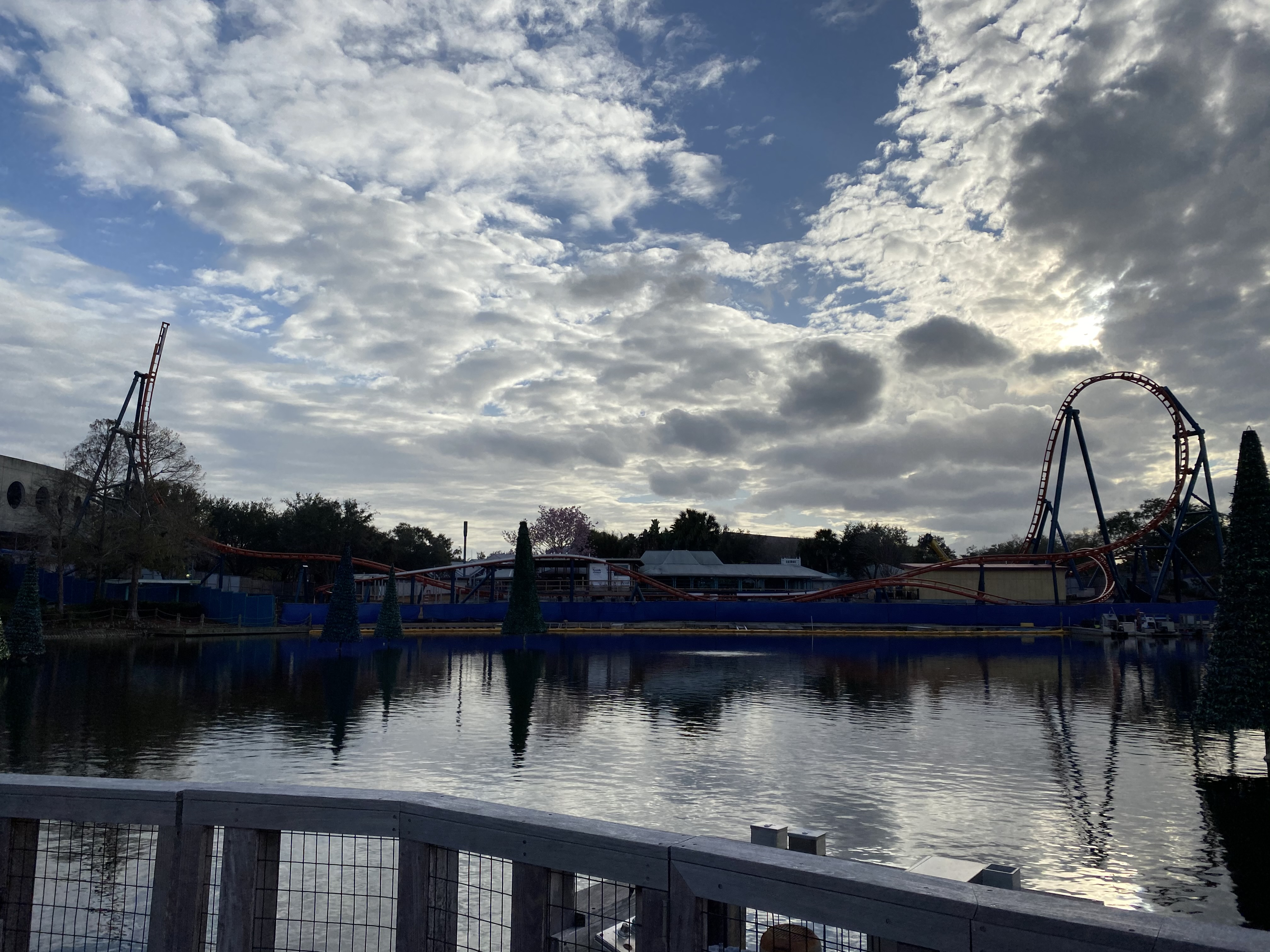 The image is of Ice Breaker located at SeaWorld Orlando in January 2020 during its construction